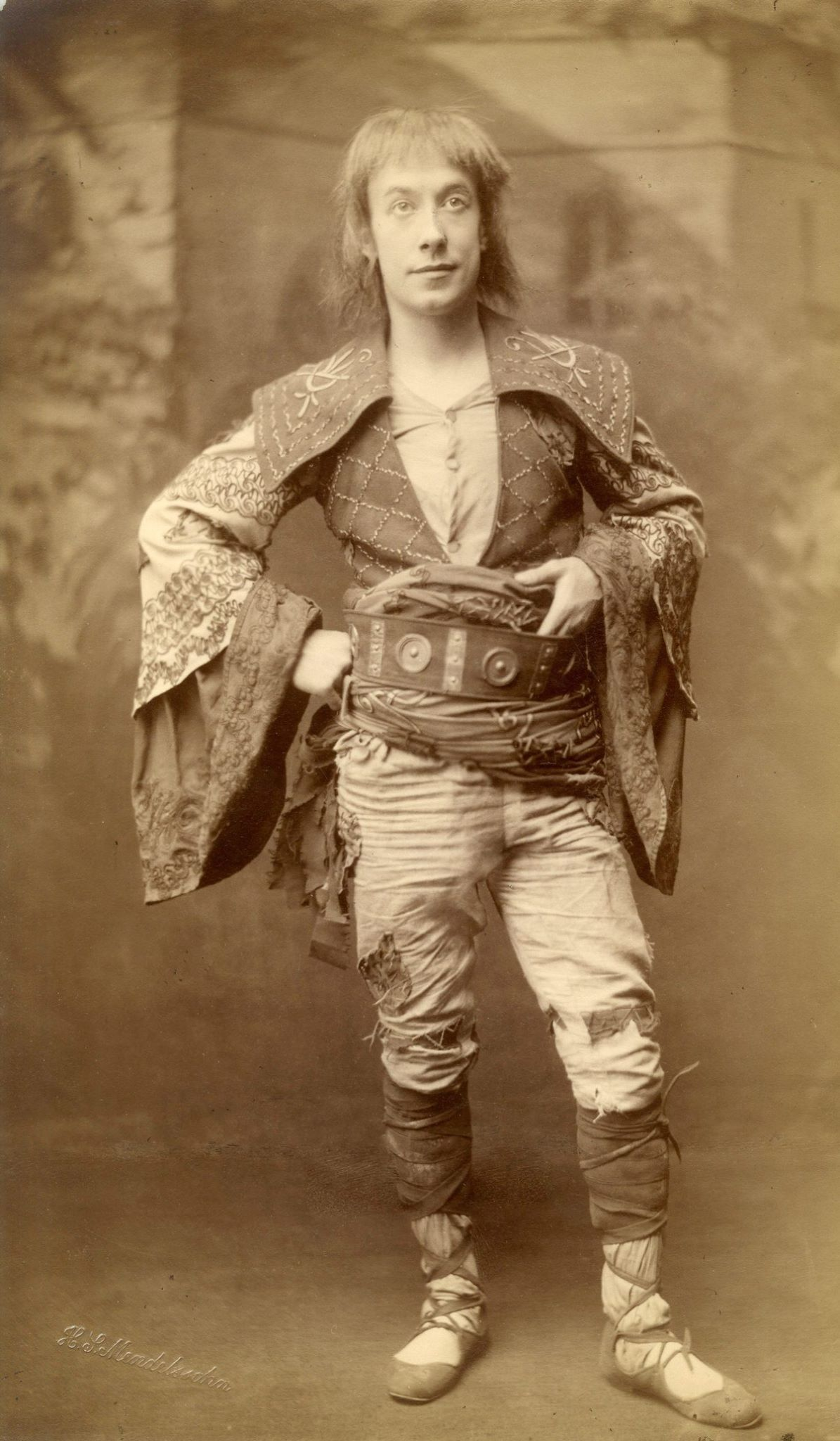 Walter Passmore in the role of Bobinet in André Messager's 1894 opera Mirette